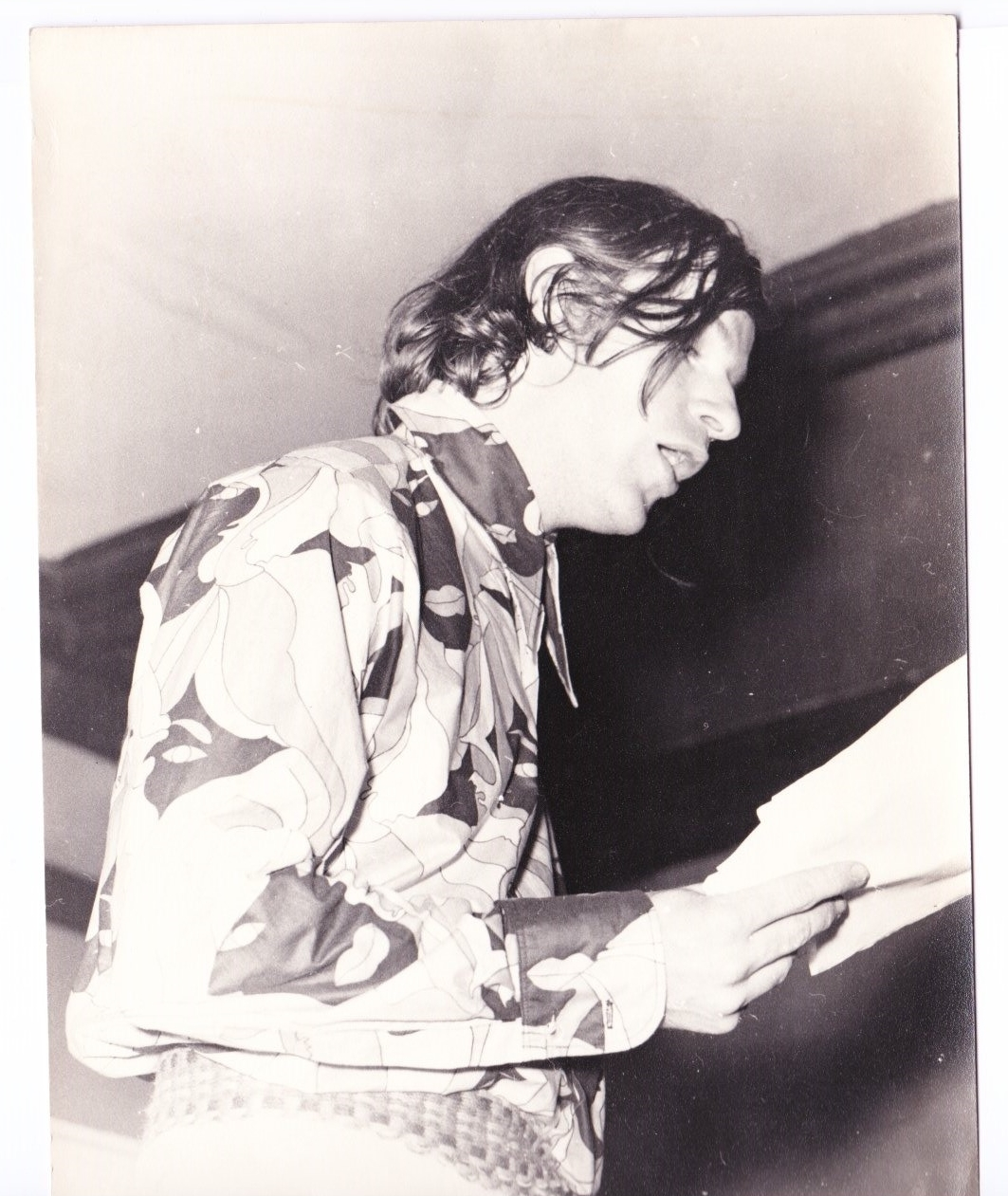 Hayden Murphy reading poetry in Norwich c.1968